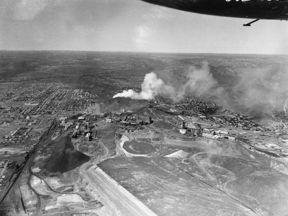 Aerial view of Mt. Isa, ca. 1952. Can you help us describe this image?.